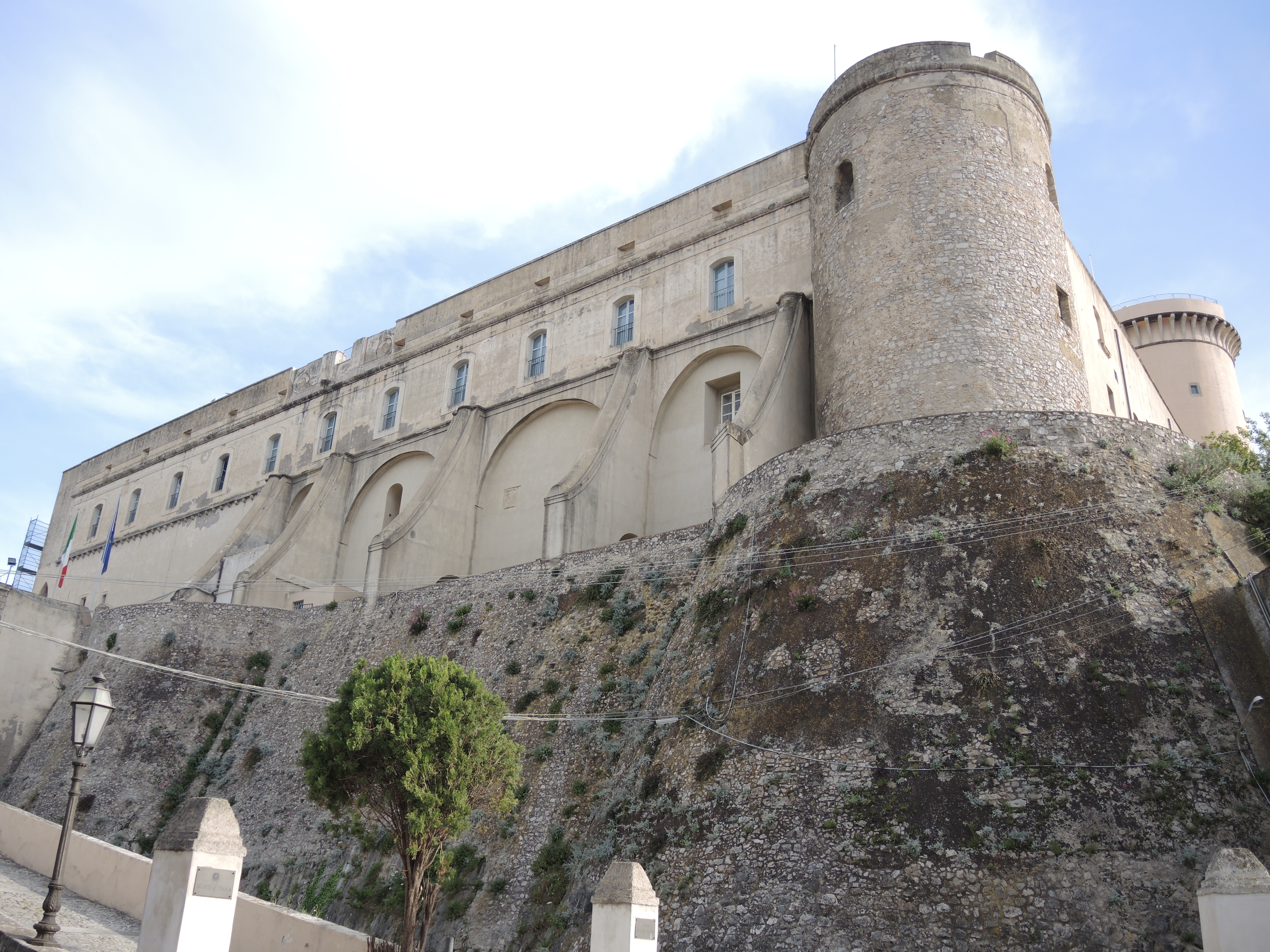 Gaeta: Castello Angioino-Aragonese